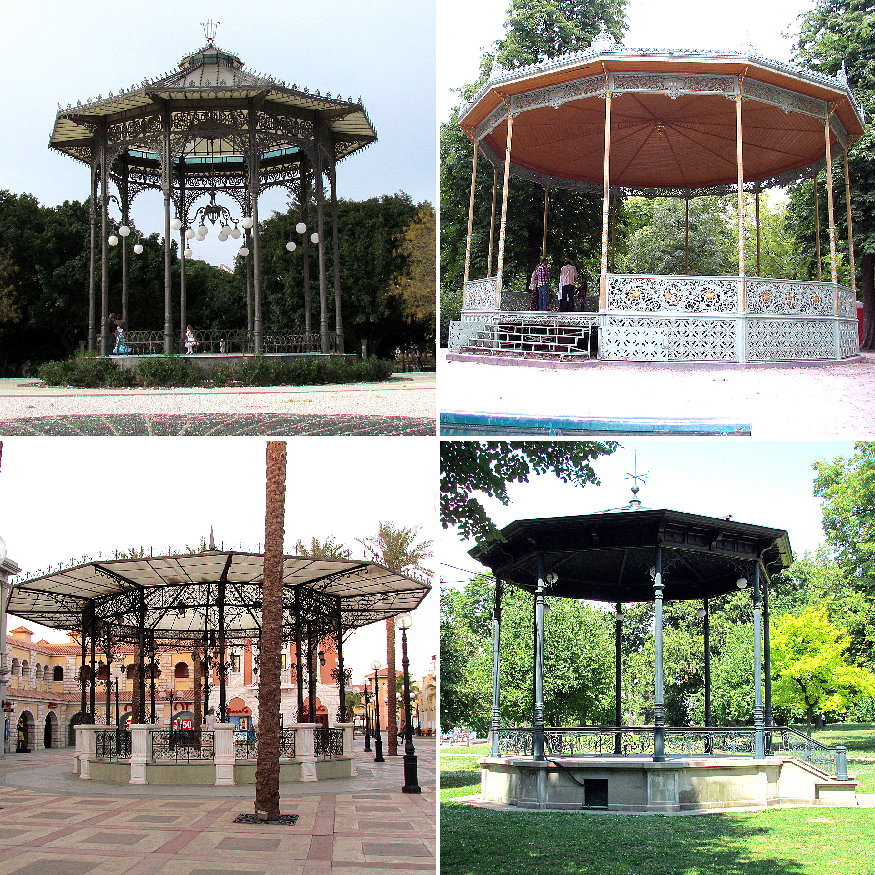 Examples of Gazebos